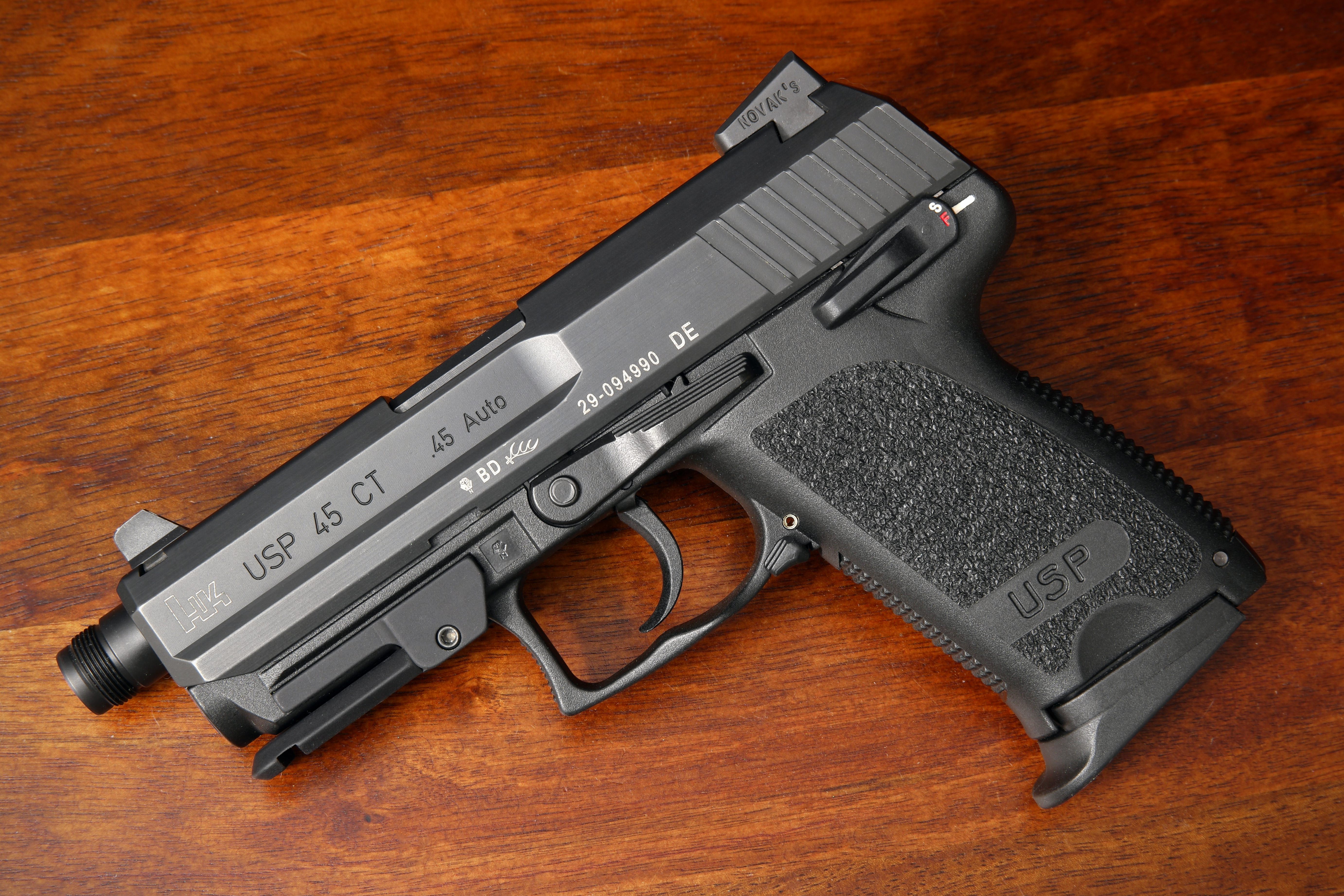 HK USP CT, .45 ACP